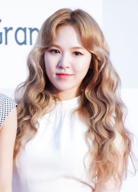 Wendy Son at 25th Seoul Music Awards on January 14, 2016.